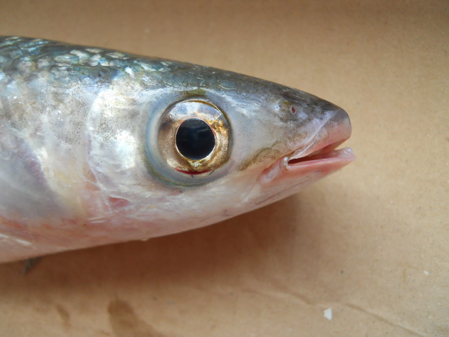 Liza ramada bought in Grosseto fish market (Tuscany, Italy).